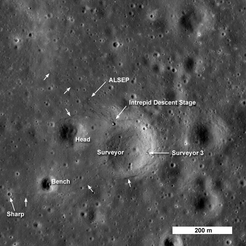 Apollo 12 This image from LRO shows the spacecraft's first look at the Apollo 12 landing site. The Intrepid lunar module descent stage, experiment package (ALSEP) and Surveyor 3 spacecraft are all visible. Astronaut footpaths are marked with unlabeled arrows. This image is 824 meters (about 900 yards) wide. The top of the image faces North. Photo is taken by the artificial satellite Lunar Reconnaissance Orbiter in 2009